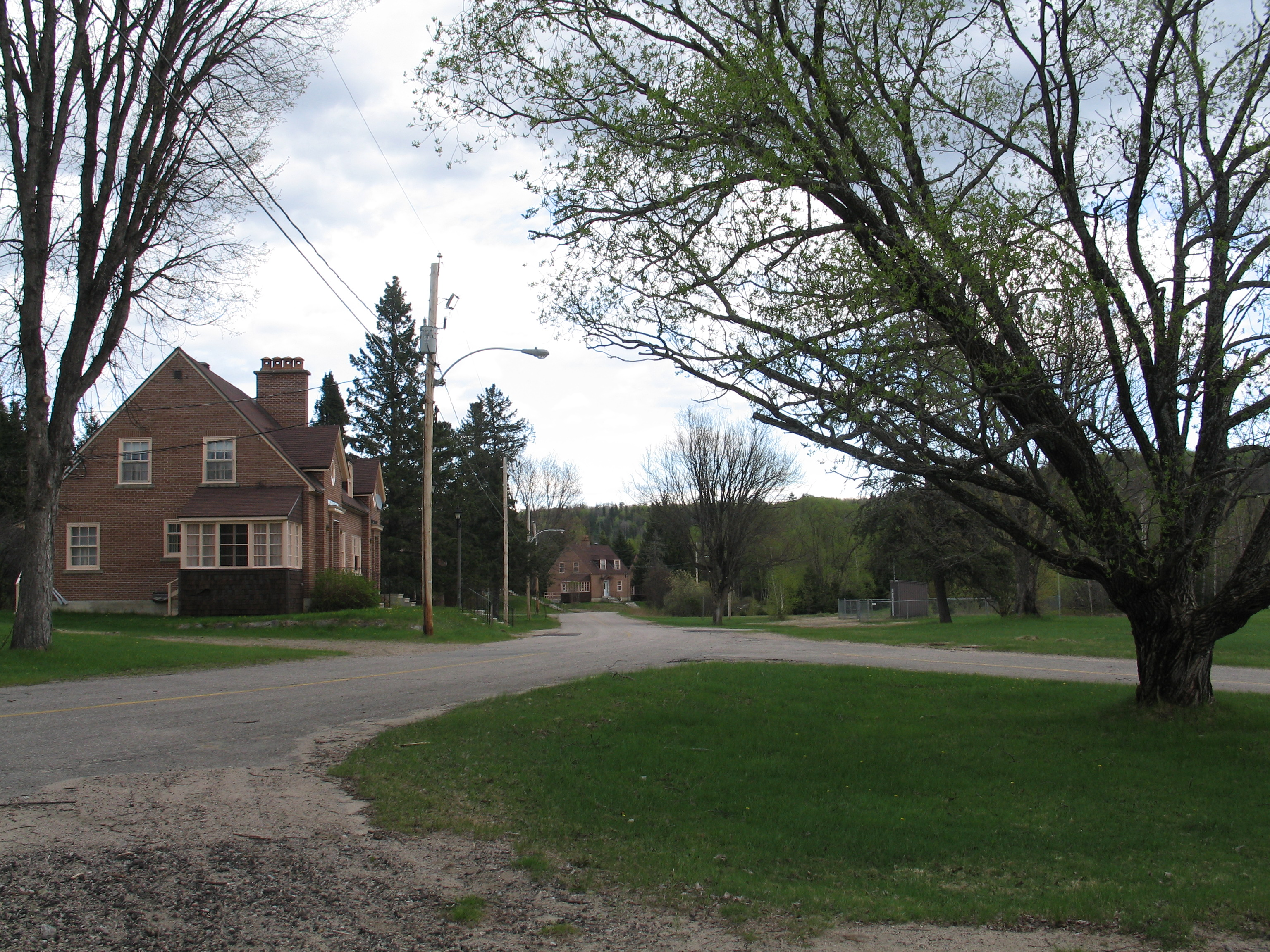 A few of the 7 houses remaining on the former site of the village of Rapide-Blanc, located east of the Rapide-Blanc generating station, 60 km north of La Tuque, Quebec. Hydro-Québec kept these houses standing when control of the powerhouse was automated, in 1971.